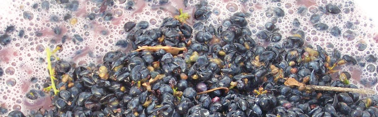 Image of Cabernet Sauvignon must interacting with the skin during fermentation in the maceration process. Photo taken at Mountain Homebrew in Kirkland, WA on October 14th, 2007 with a Kodak z650 camera Category:Wine-related images